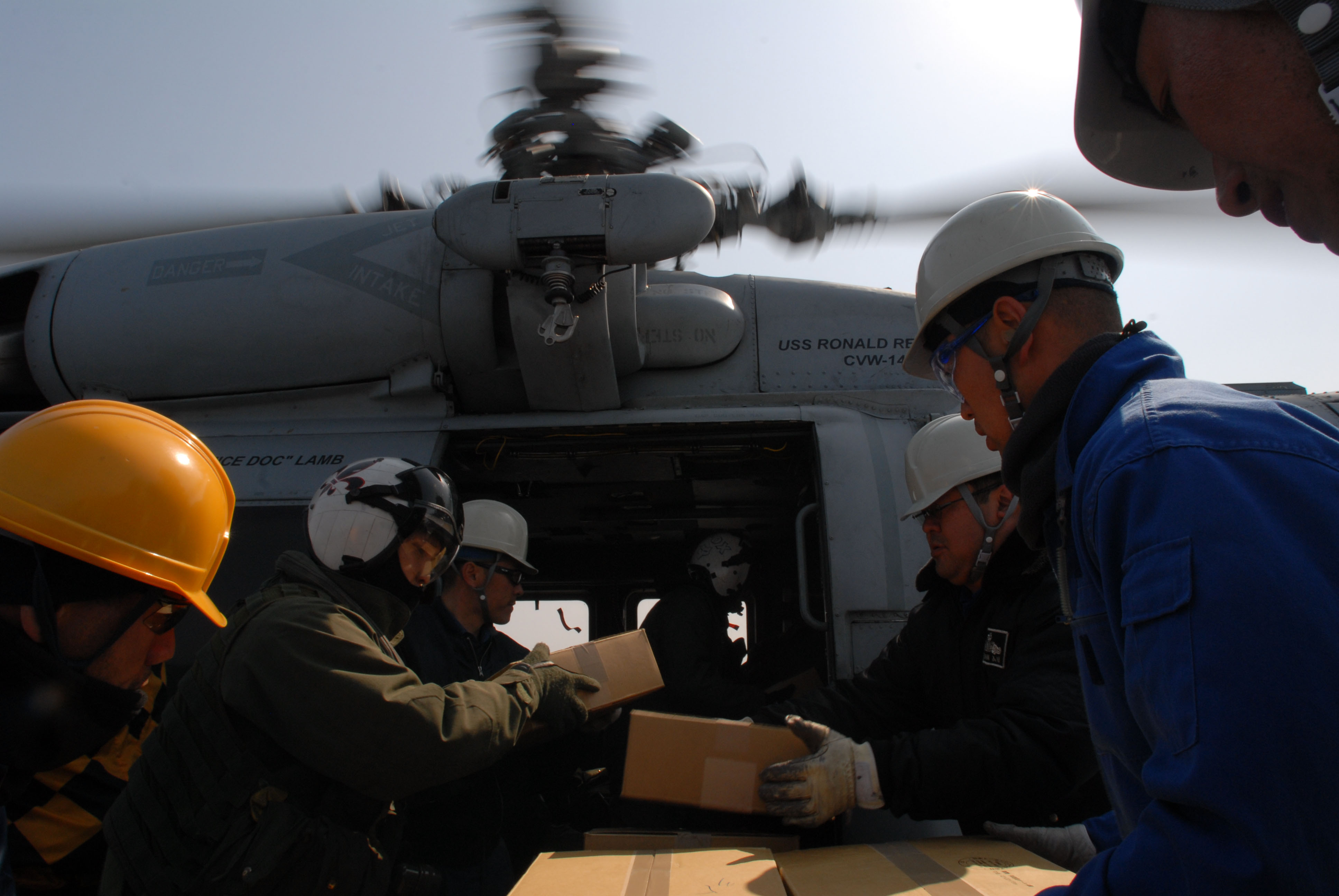 PACIFIC OCEAN (March 13, 2011) Sailors assigned to the Black Knights of Helicopter Anti-Submarine Squadron (HS) 4, embarked aboard the aircraft carrier USS Ronald Reagan (CVN 76), and Japanese relief workers load supplies aboard the Japanese Oiler JDS Tokiwa (AOE 423) to support earthquake and tsunami relief efforts near Sendai, Japan. Ronald Reagan is off the coast of Japan rendering humanitarian assistance following an 8.9 magnitude earthquake and tsunami. (U.S. Navy photo by Mass Communication Specialist 3rd Class Dylan McCord/ Released)